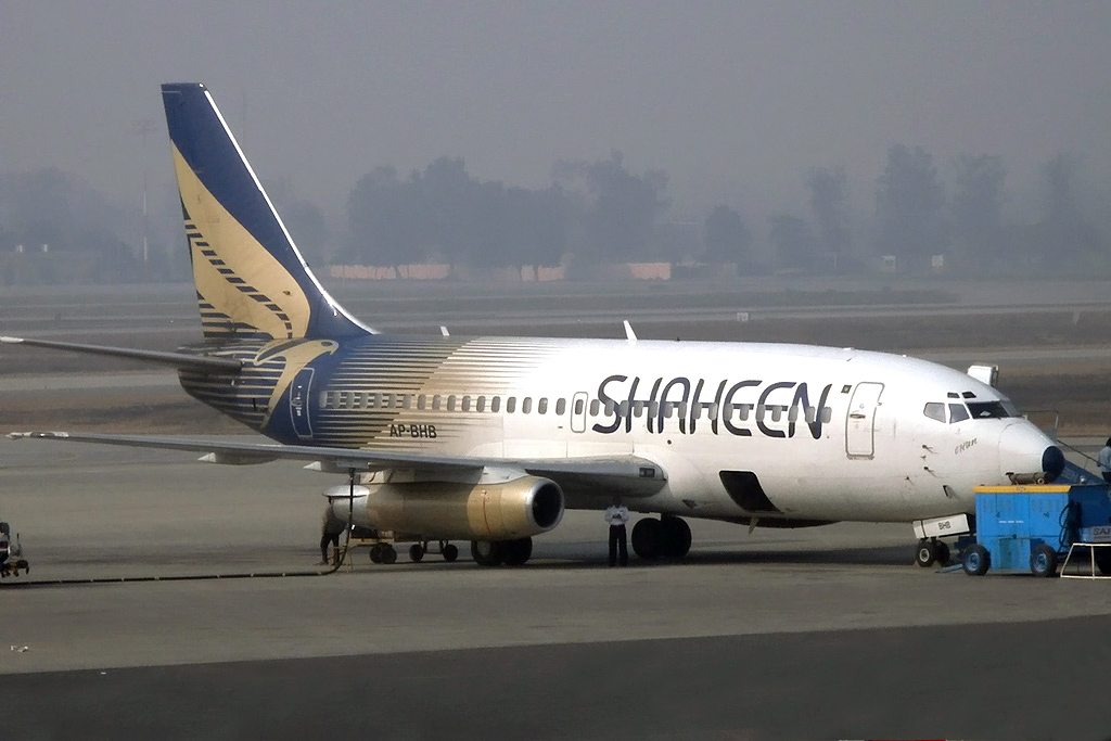 Shaheen Air International Boeing 737-200 at Allama Iqbal International Airport.